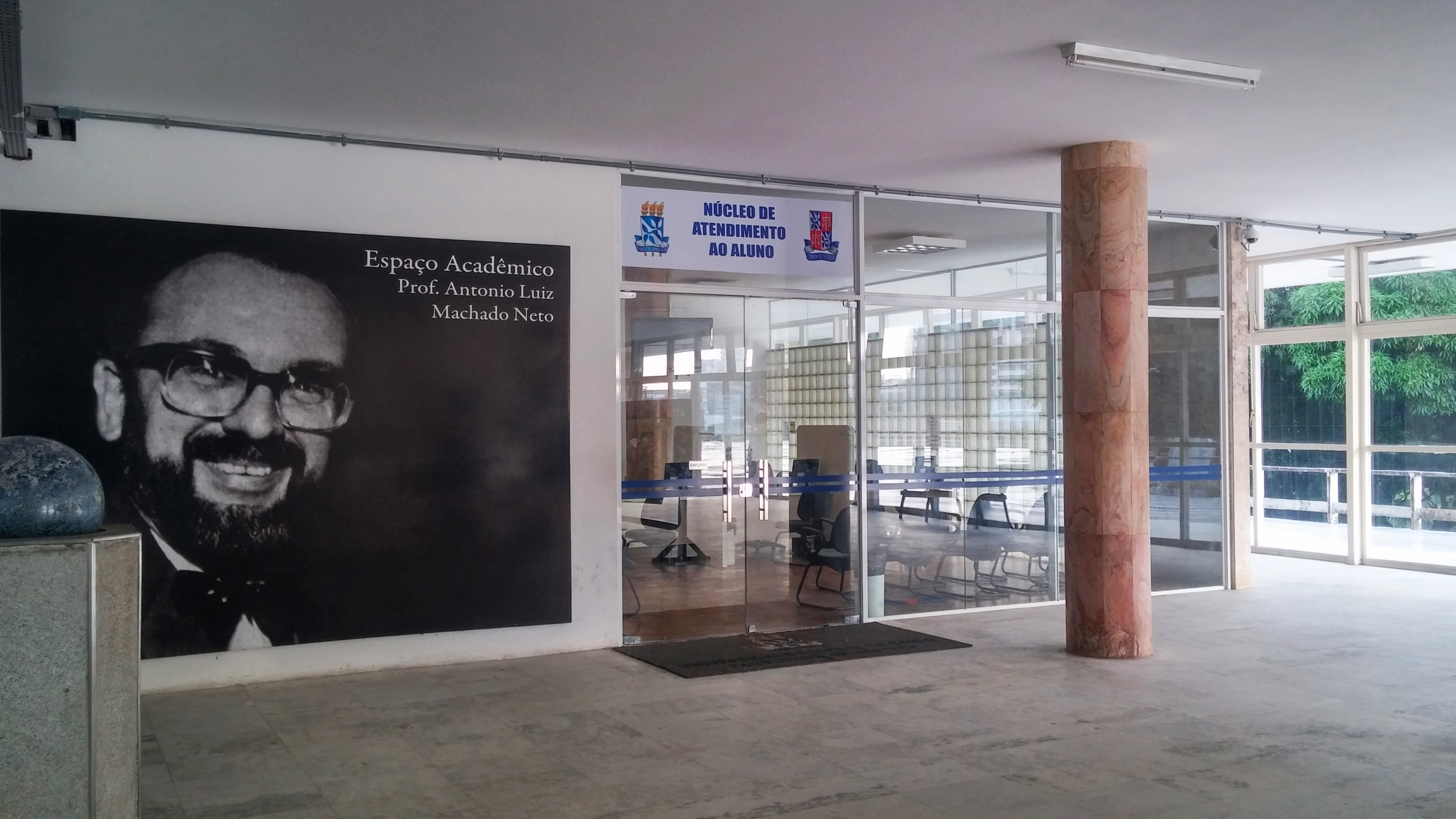 Núcleo de Atendimento ao Aluno da Faculdade de Direito da Universidade Federal da Bahia | Student support service of the Faculty of Law of the Federal University of Bahia